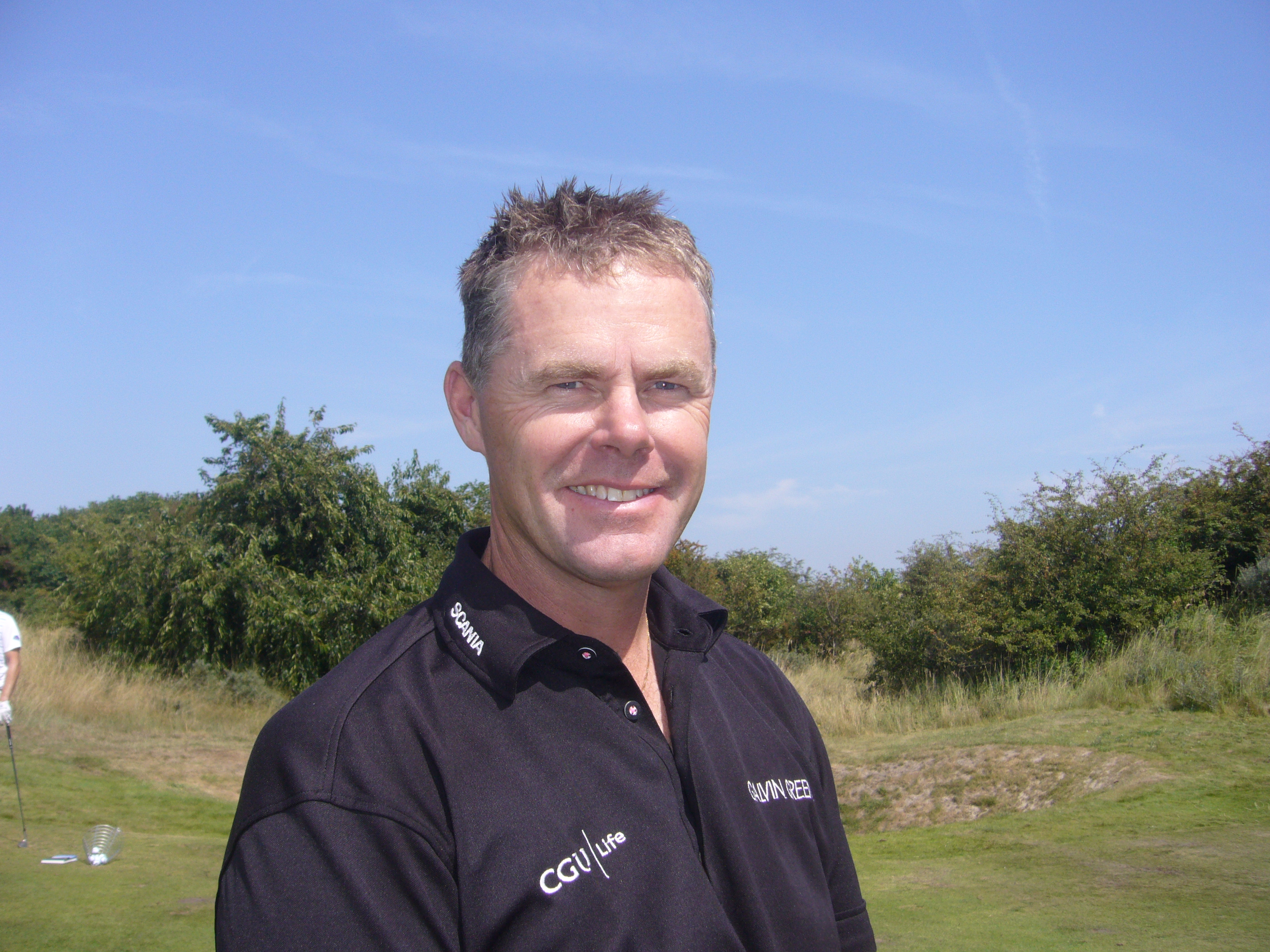 Joakim Haegman, Swedish professional golfer, at the KLM Open in Holland